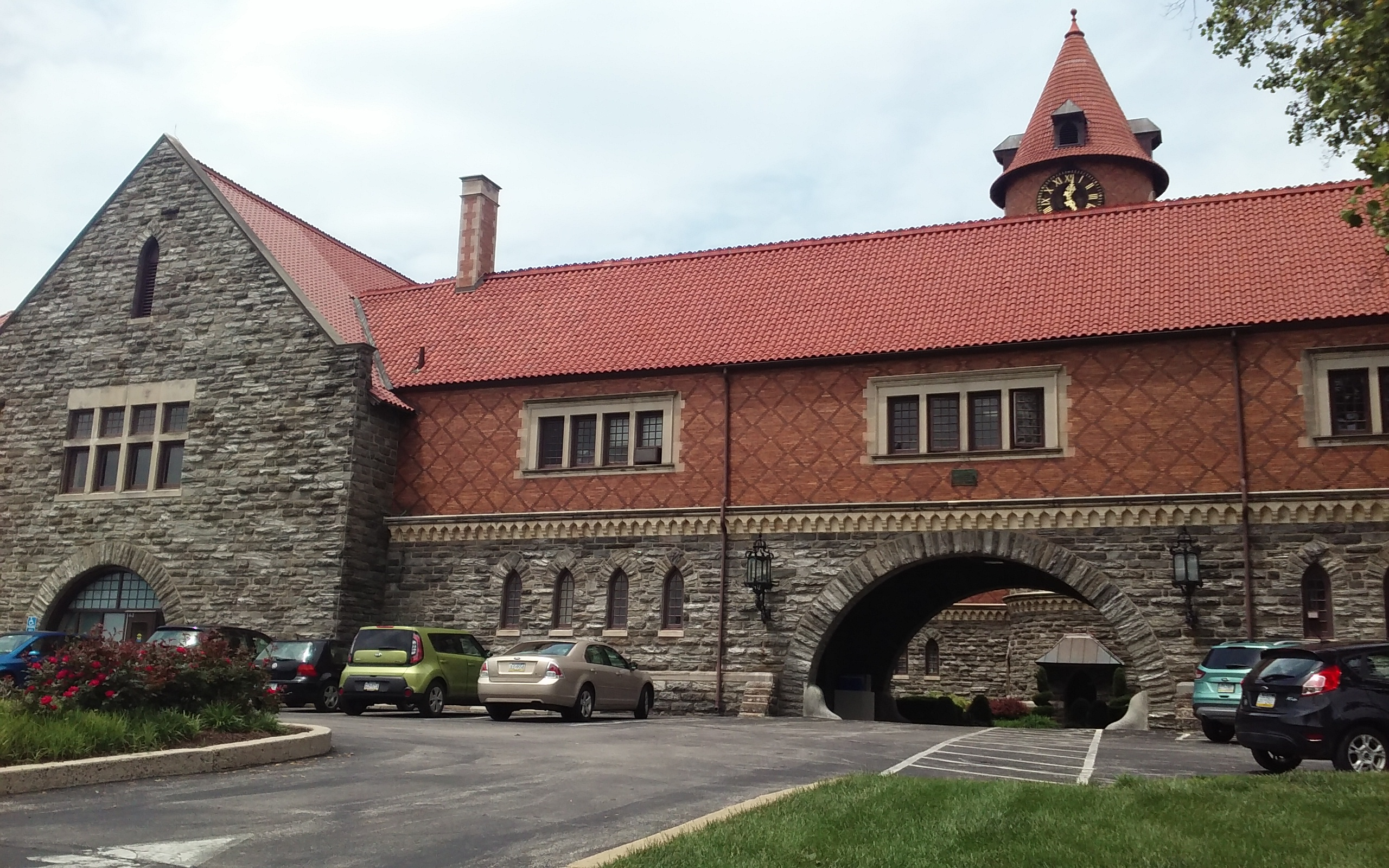 Murphy Hall, previously the stables, part of the Harrisson Estate.